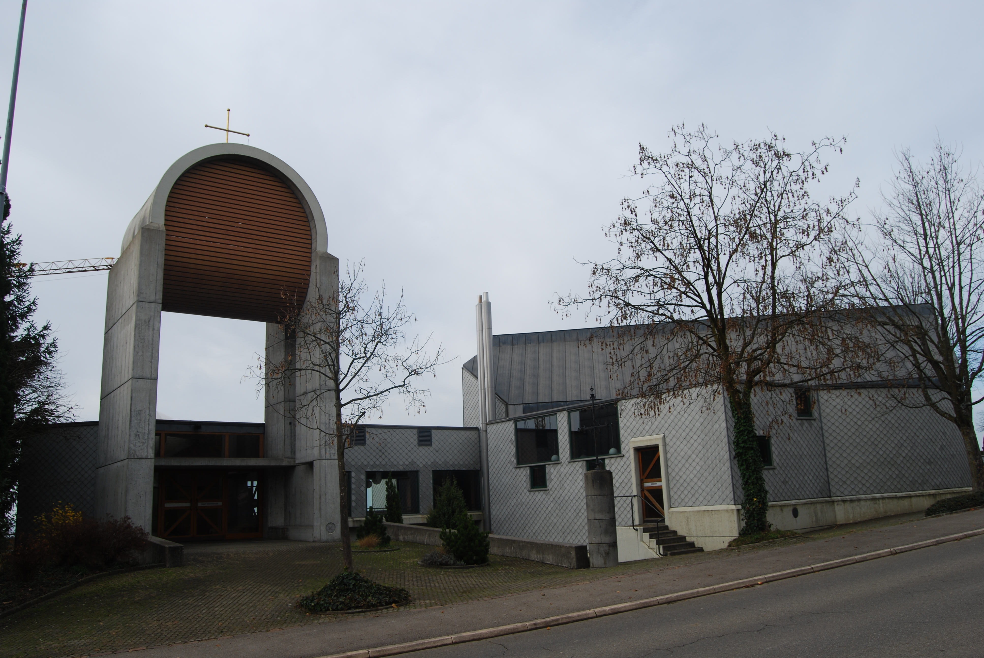 Church of Bellikon, canton of Aargau, SwitzerlandEsperanto: Preĝejo de Bellikon, Kantono Argovio, Svislando